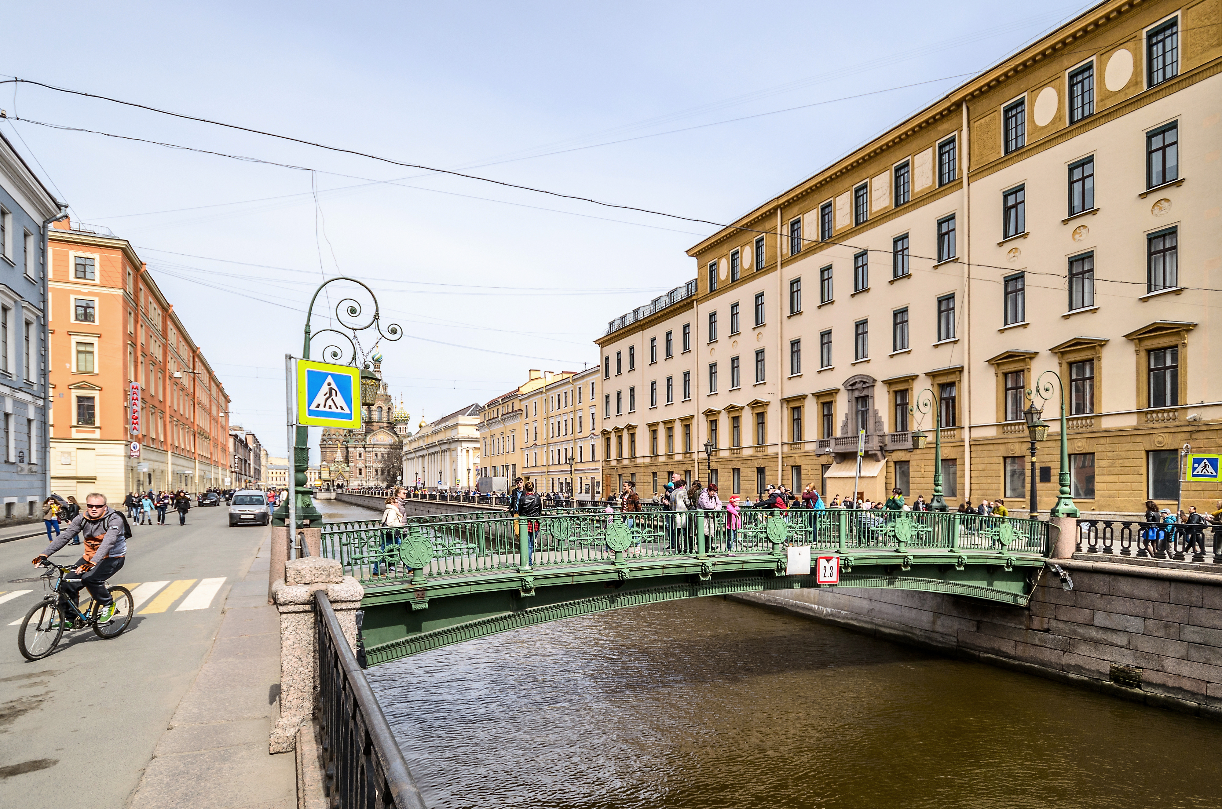 Italiansky Bridge in Saint Petersburg